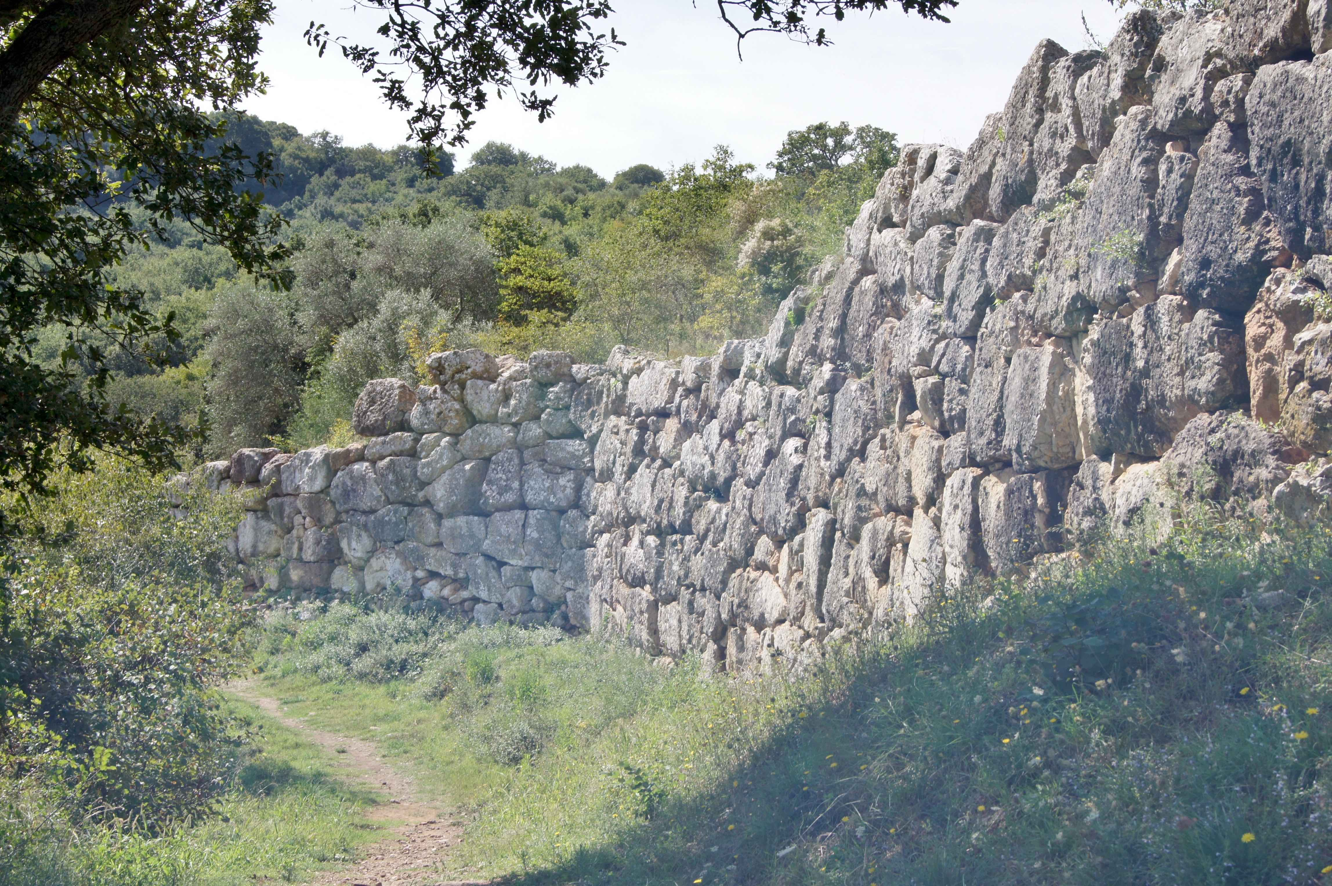 Etruscan city walls